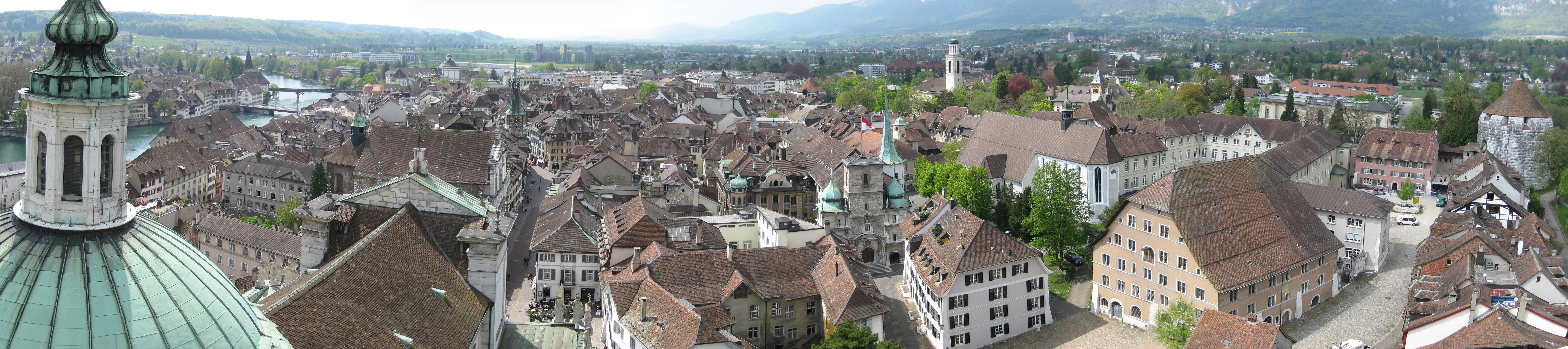 The city as seen from the St. Ursus Cathedral top. The Bieltor and Baseltor can be seen well.